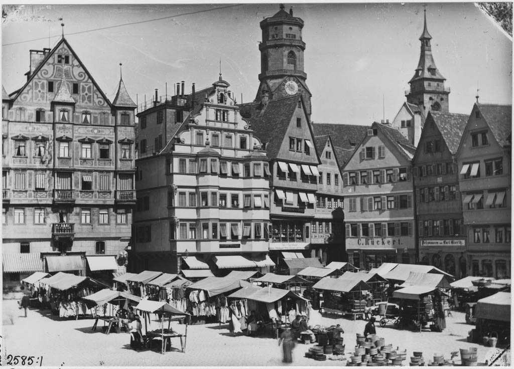 The old Market Place in Stuttgart